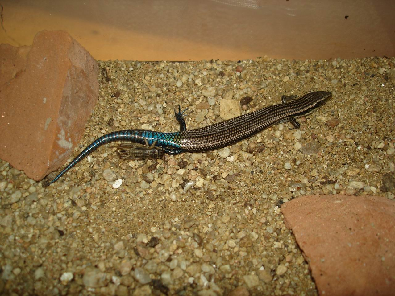 Gran Canaria Skink, Chalcides sexlineatus